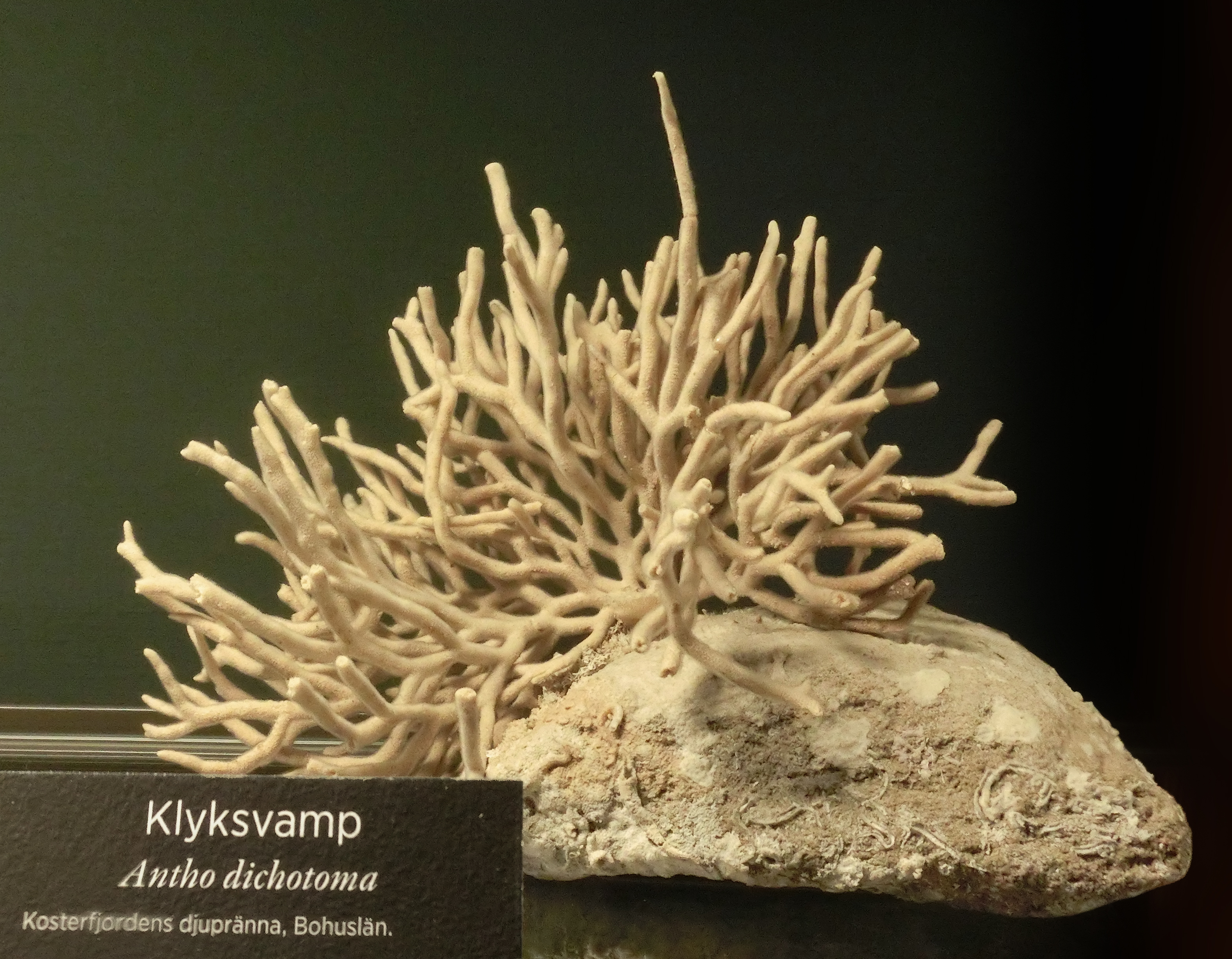 Antho dichotoma from Kosterfjorden, Bohuslän, Sweden at Göteborgs Naturhistoriska Museum, Gothenburg, Sweden.